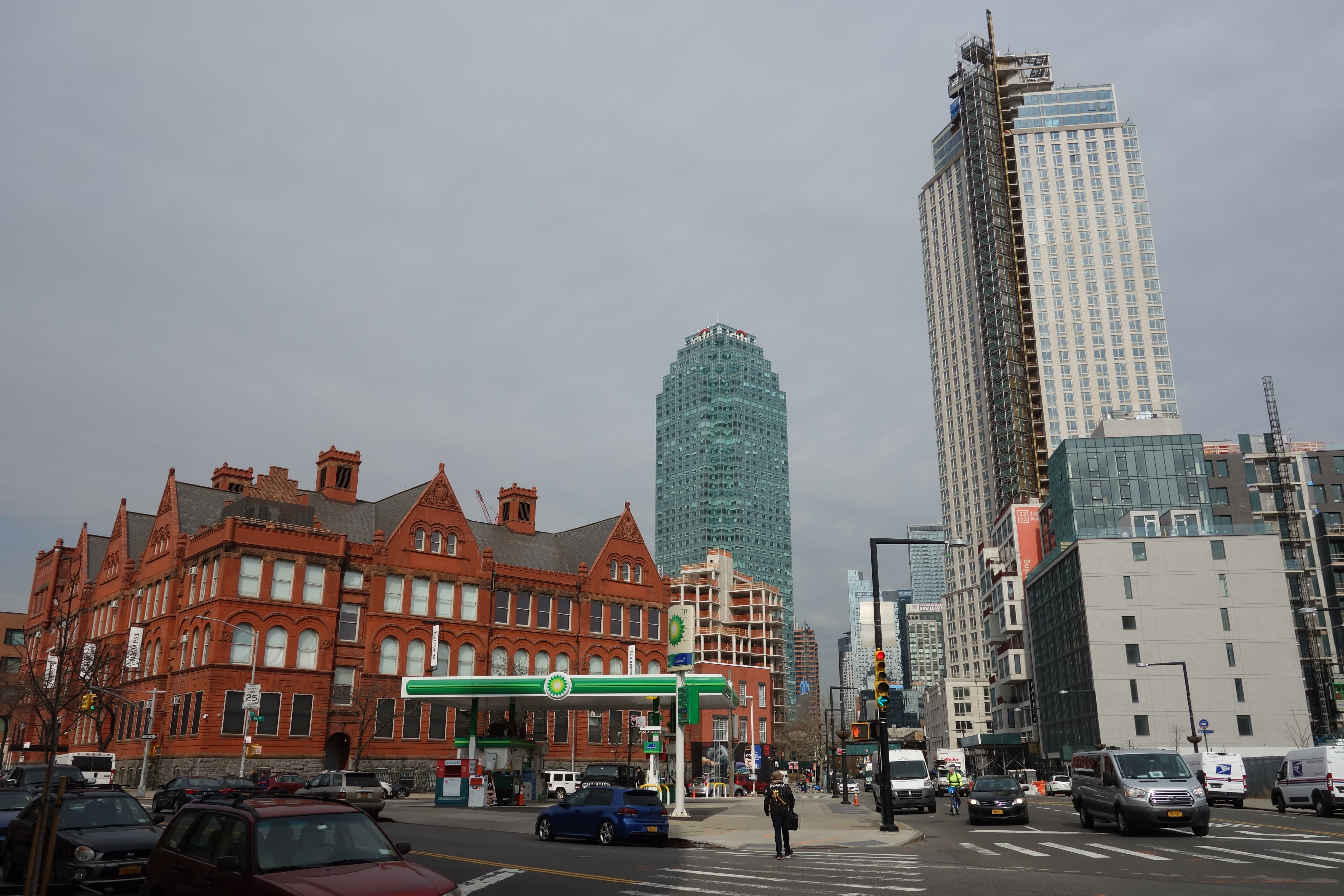 Looking northeast along Jackson Avenue and a partial skyline of Long Island City, at Jackson Avenue and 21st Street at 47th Avenue in Long Island City, Queens. To the left is the MoMa PS1. In the center is One Court Square. To the right is the 22-44 Jackson Avenue tower being constructed on the former 5 Pointz site.